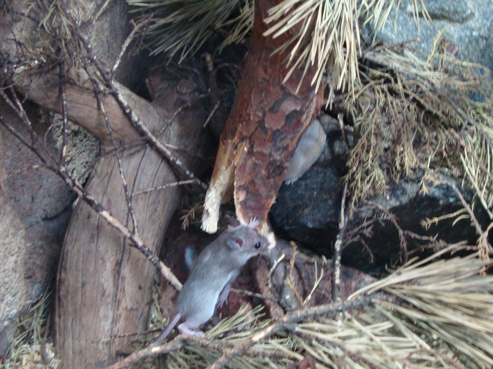 Asia Minor Spiny Mouse (Acomys cilicicus) in Africasia House at Korkeasaari Zoo in Helsinki.